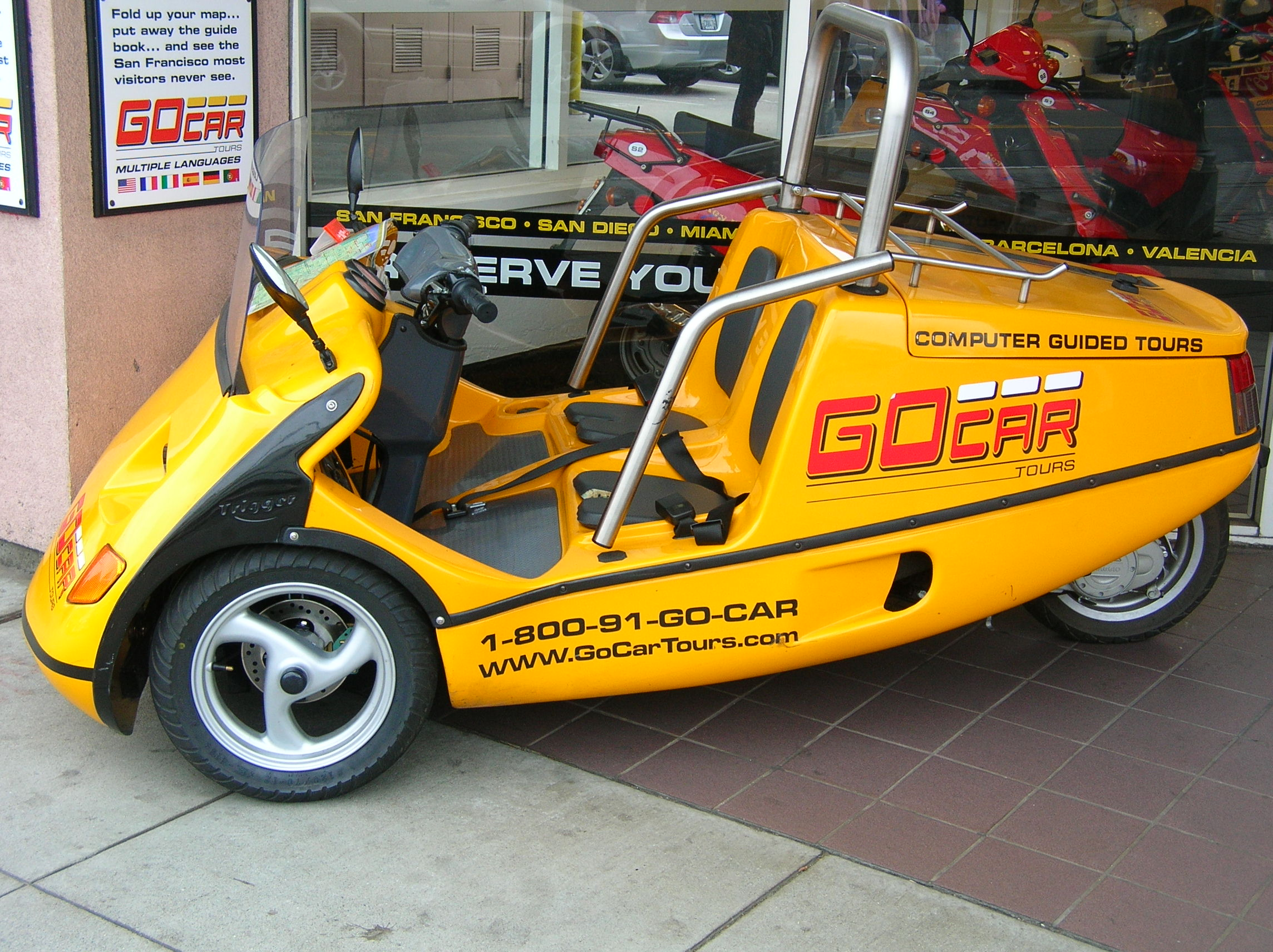 A SunTrike operated by GoCarTours San Francisco near Fisherman's Wharf.